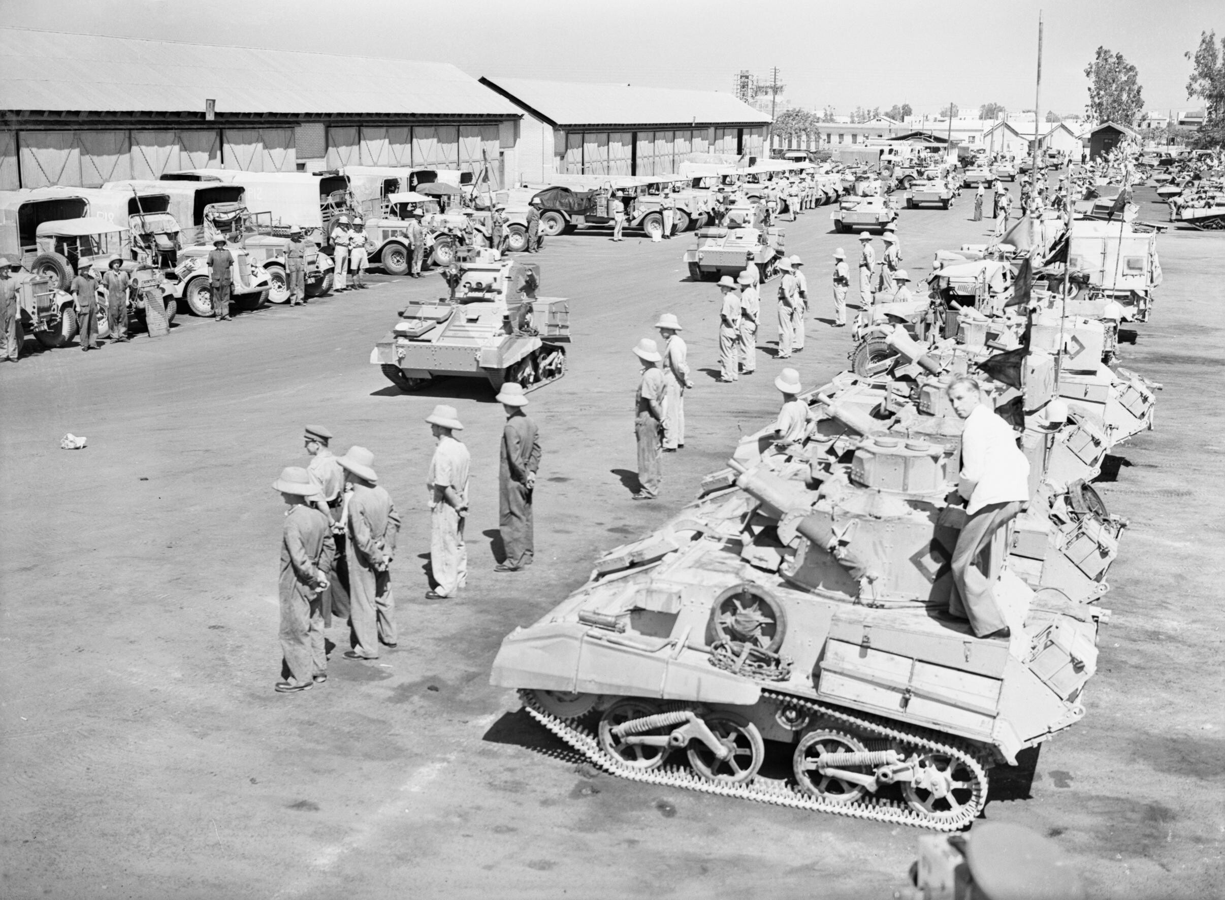 The British Army in North Africa 1940 Light Tank Mk VIs and lorries of 8th Hussars assembled ready to move off for an exercise in the desert, Egypt, 5 June 1940.